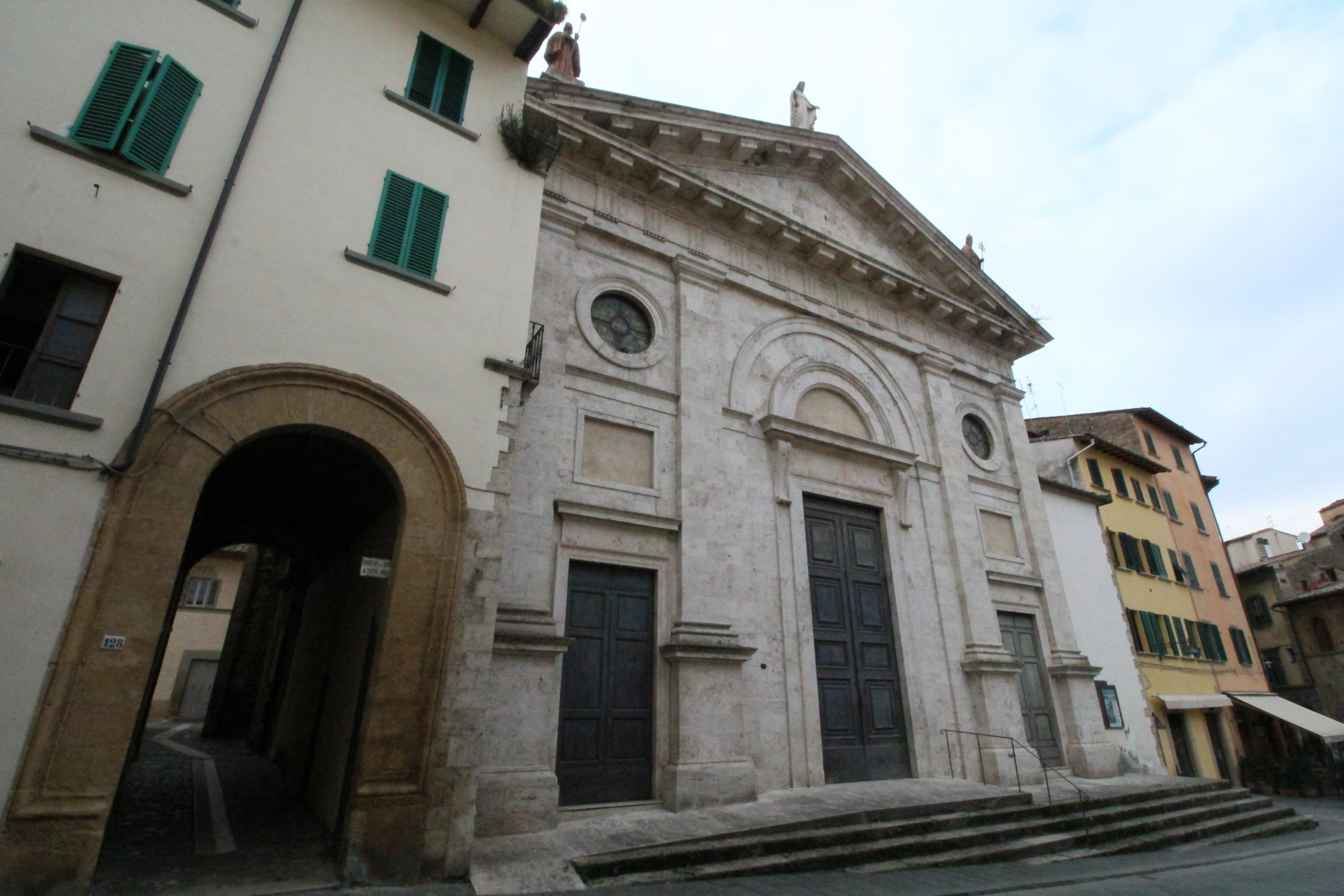 Church Collegiata di Santa Maria Assunta, Center of Poggibonsi, Province of Siena, Tuscany, Italy